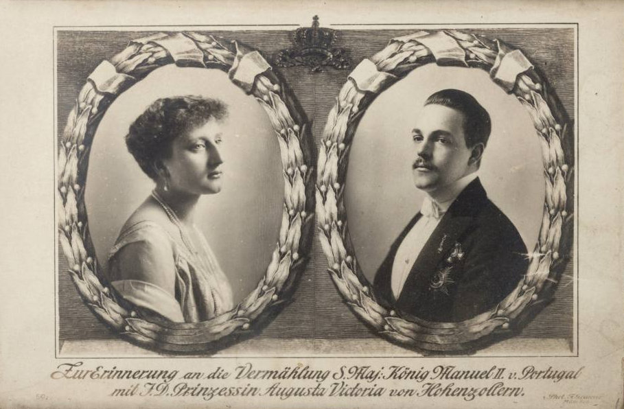 Engraving about the wedding of King Manuel II of Portugal with Princess Augusta Victoria of Hohenzollern, in 1913.